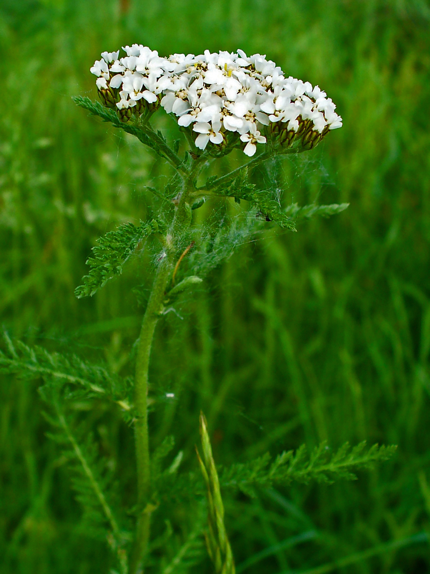 Achillea millefolium, Asteraceae, Yarrow, Gordaldo, Nosebleed Plant, Old Man's Pepper, Devil's Nettle, Sanguinary, Milfoil, Soldier's Woundwort, Thousand-leaf, inflorescence; Karlsruhe, Germany. The aerial parts of the blooming plants are used in homeopathy as remedy: Millefolium (Mill.)